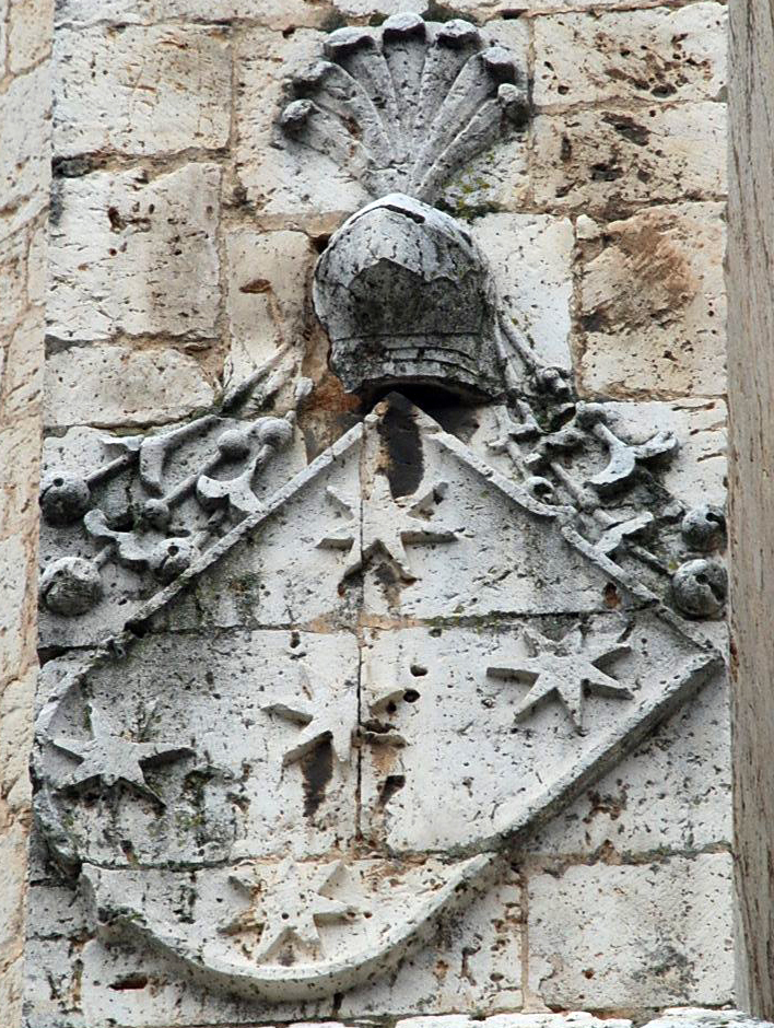 Coat of arms of Rojas familiy in the Church of Saint Paul in Palencia city (Castile and León).